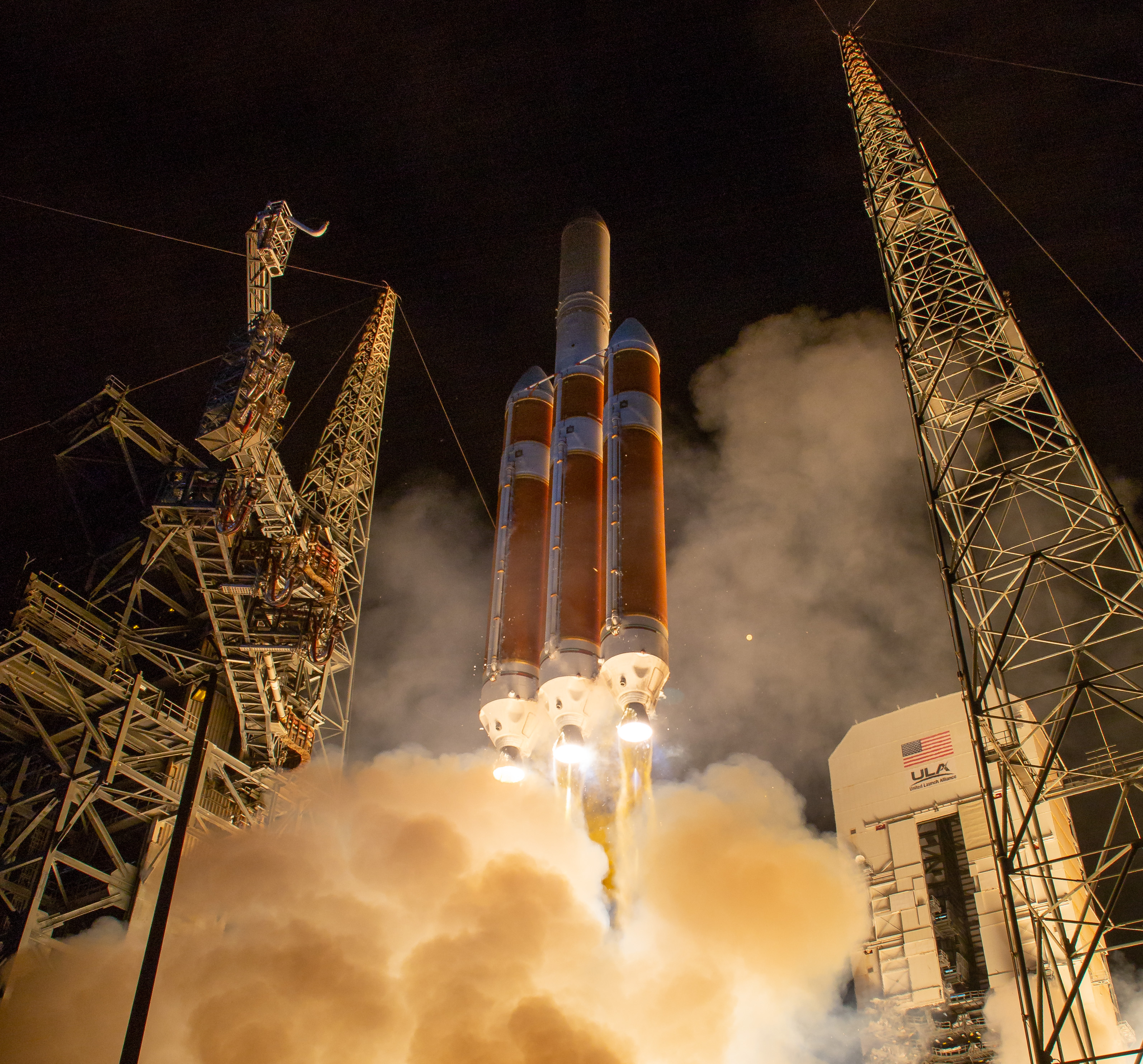 The United Launch Alliance Delta IV Heavy rocket launches NASA's Parker Solar Probe to touch the Sun, Sunday, Aug. 12, 2018 from Launch Complex 37 at Cape Canaveral Air Force Station, Florida. Parker Solar Probe is humanity’s first-ever mission into a part of the Sun’s atmosphere called the corona. Here it will directly explore solar processes that are key to understanding and forecasting space weather events that can impact life on Earth. Photo Credit: (NASA/Bill Ingalls)